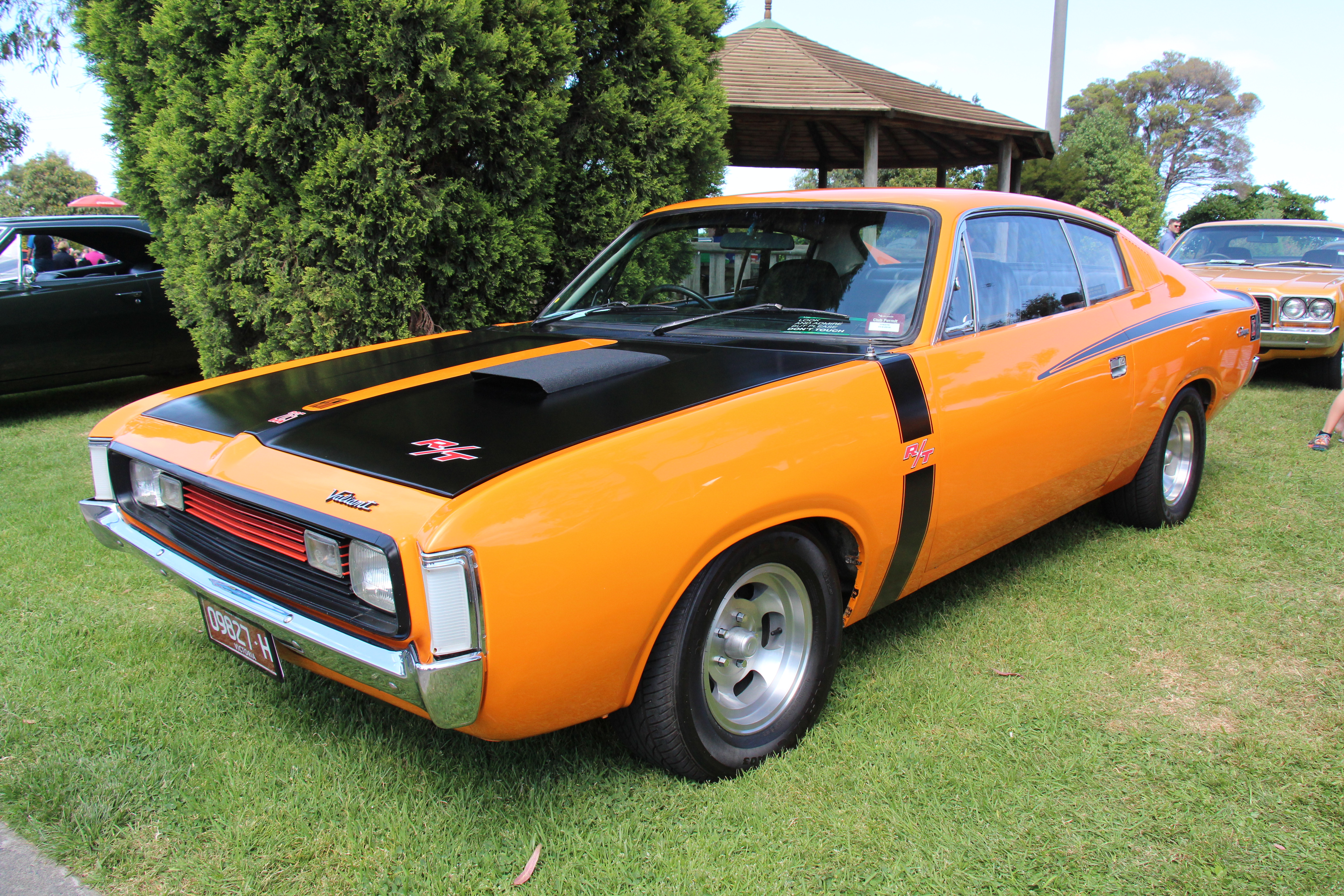 Vitamin C. The VH was an all new fully Australian designed and built Valiant. It was a larger car and more rounded than the VG, the grille heavily influenced by its US counterparts. A more powerful 265 cu in hemi 6 was introduced. For the performance car, only a 4 door Pacer was available, until it was replaced by the new 2 door short wheelbase 'Charger' coupe. The Charger is very collectible today, especially the E49 RT version. all RTs got a blacked out grille, RT stripes and decals and full instrumentation (A66 option was the black out hood) VH Chargers available; Base; 215 cu in, 2bbl, 140hp, 3 spd XL; 245 cu in, 2bbl, 160hp, 3 spd (318 V8 option) RT; 265 cu in, 2bbl, 218 hp, 3spd, 699 made (1 auto, 60 4 spd) E37; 265 cu in, 6 pk, 248hp, 3 spd, 134 made RT E38; 265 cu in, 6 pk, 280 hp, 3 spd, 316 made (234 A84 option) RT E48; 265 cu in, 6 pk, 248 hp, 4 spd, 2 made RT E49; 265 cu in, 6 pk, 302 hp, 4 spd, 149 made (21 A84 option) 770; 265 6 or 318 V8, 2 bbl, 230/275hp, auto 770SE; 340 cu in V8, 4bbl, 275 hp, auto E55; 340 cu in V8, 4 bbl, 275hp, auto, 124 made (A84 option was the 35 gal tank).